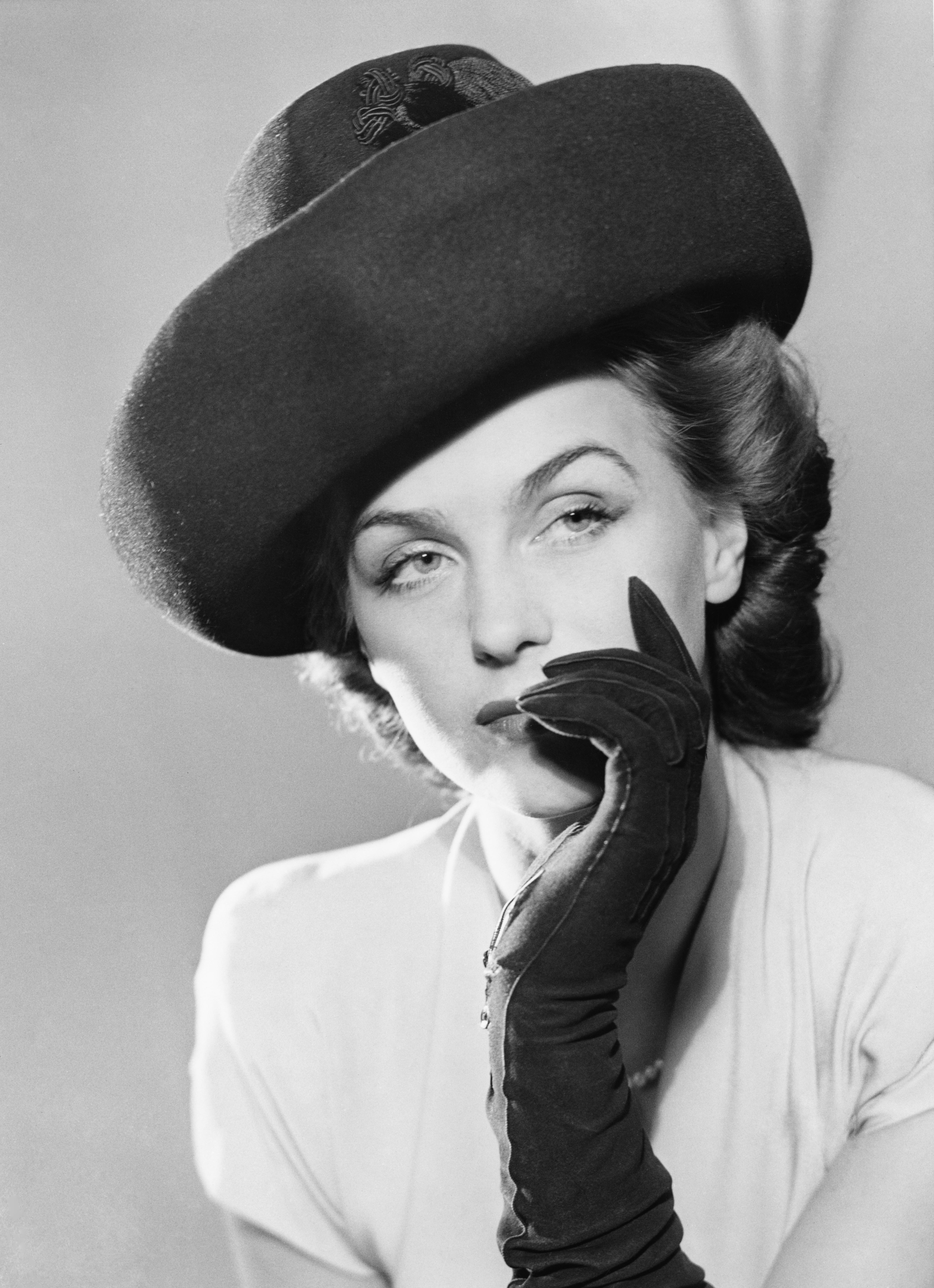 Fashion Photo by Erik Holmén 1943